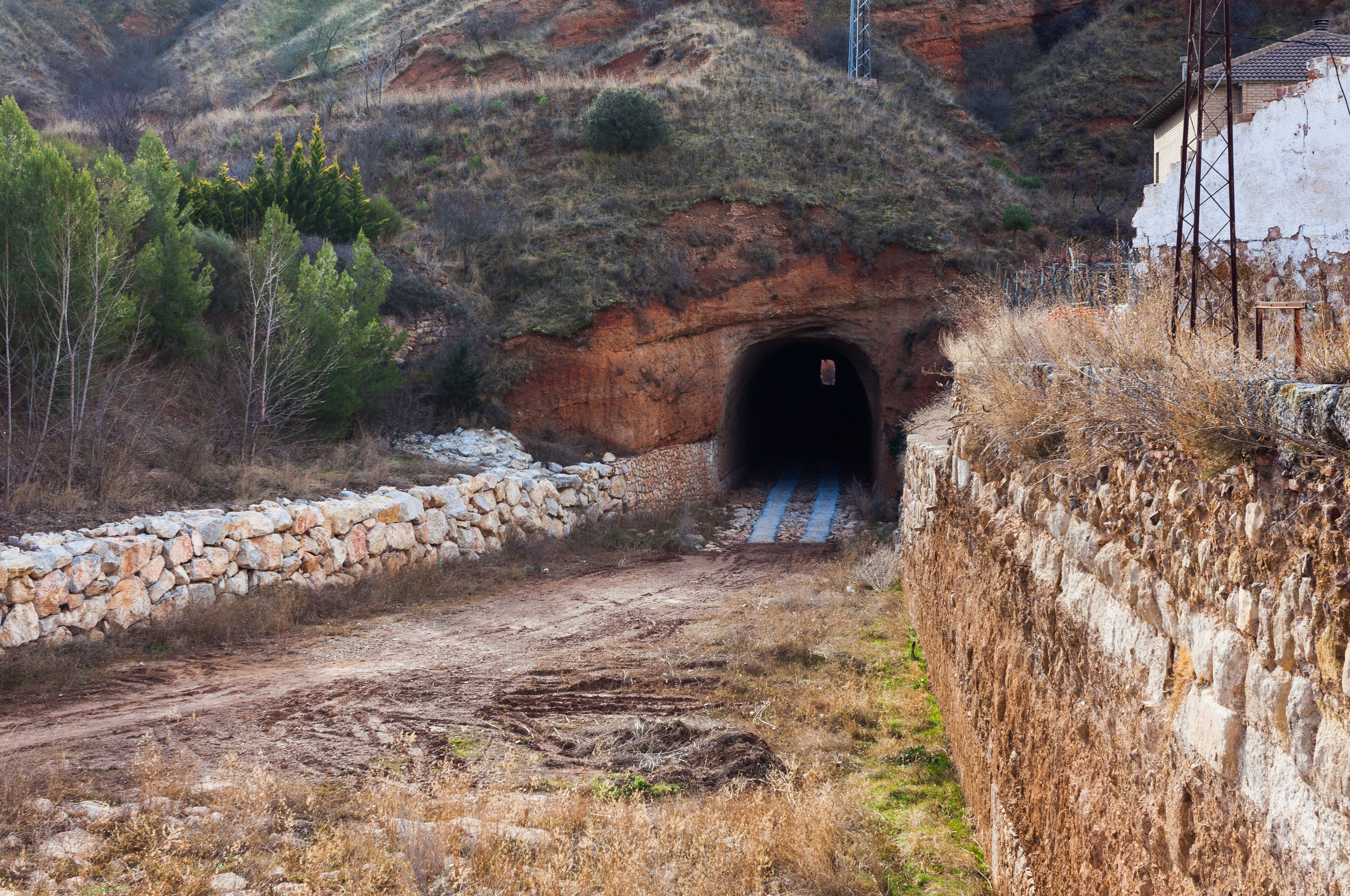 Mine, Daroca, Zaragoza, Spain